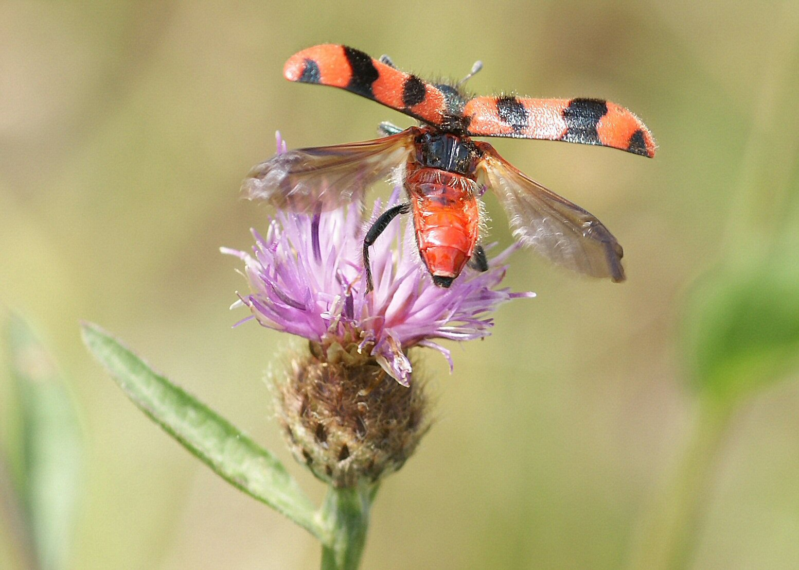 Soldier Beetle, Beehive Beetle